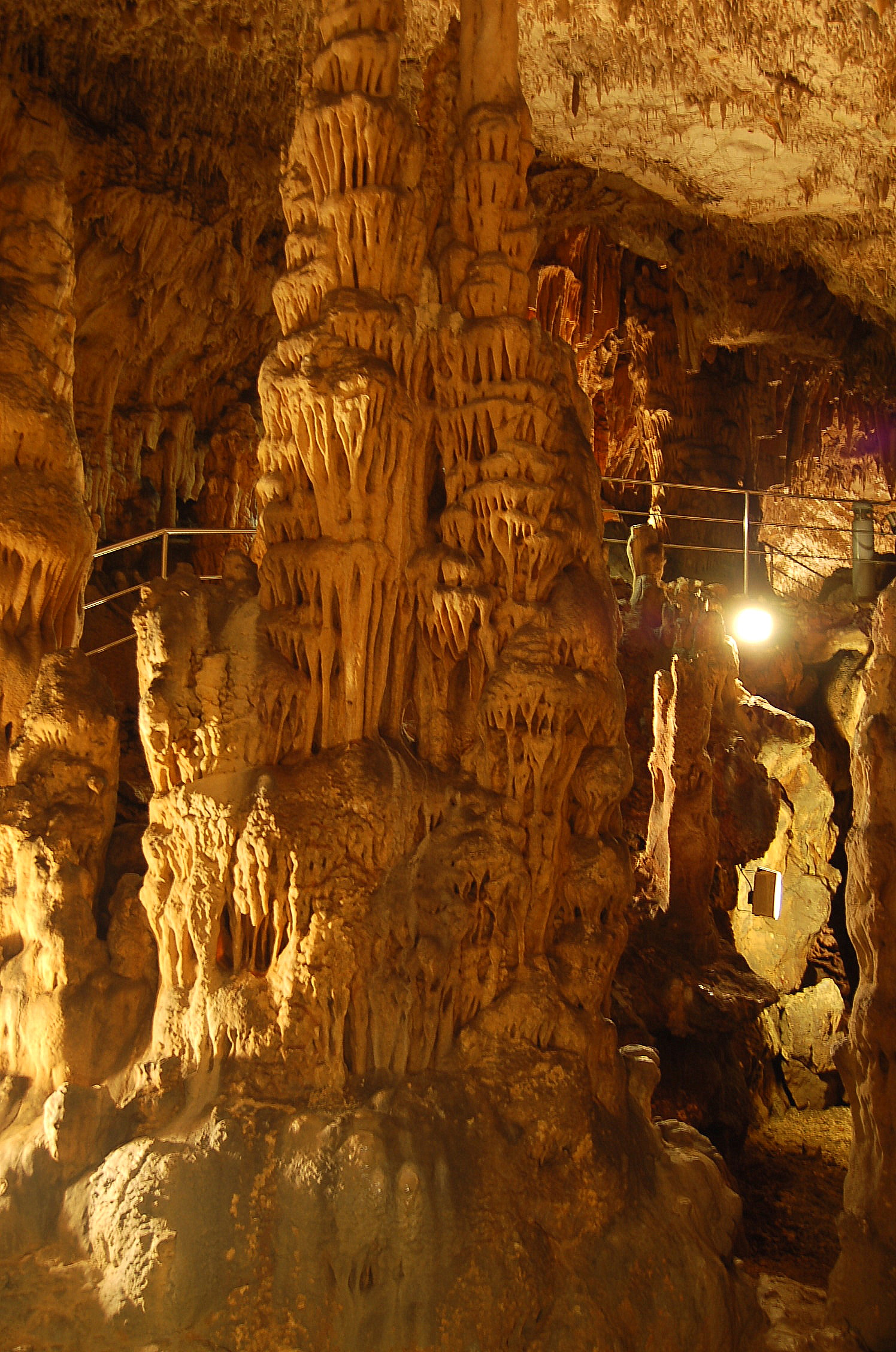 Dripstone column in Biserujka Cave, Dobrinj, Island of Krk, Croatia